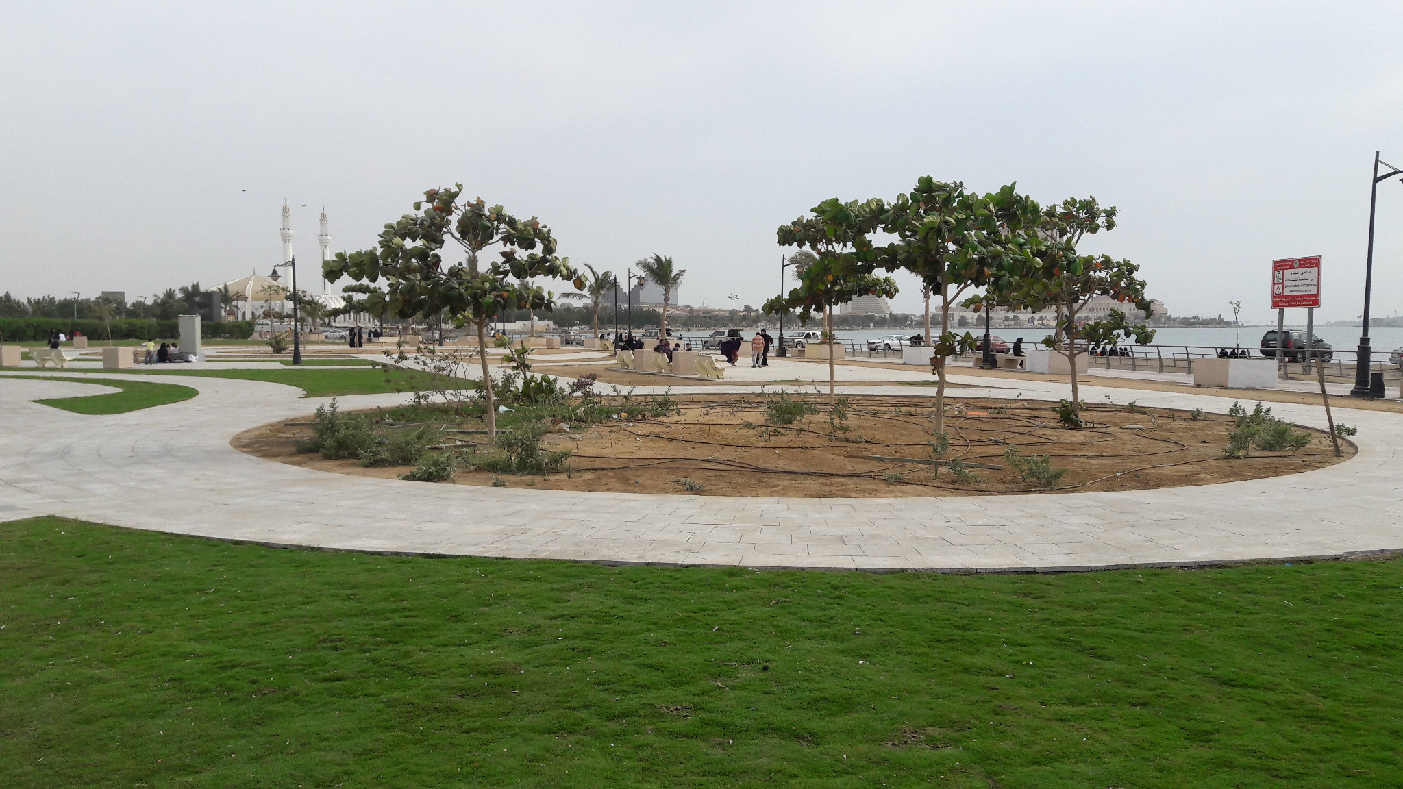 Middle Corniche Park